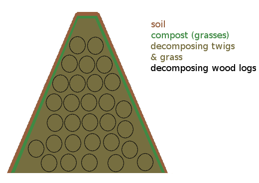 Schematic of Sepp Holzer's hügelkultur. Schematic was based on